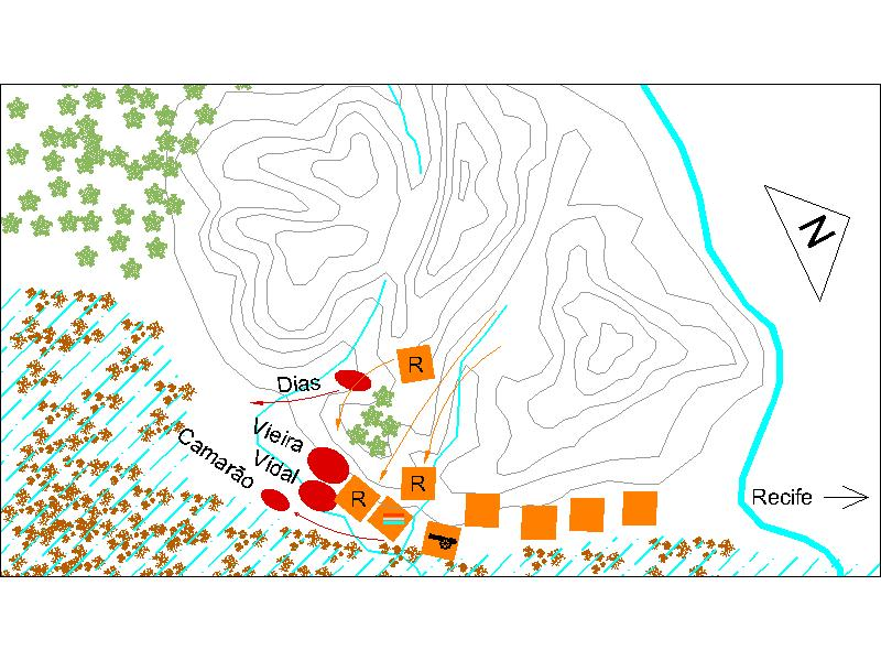 Contra-ataque surpresa da reserva holandesa